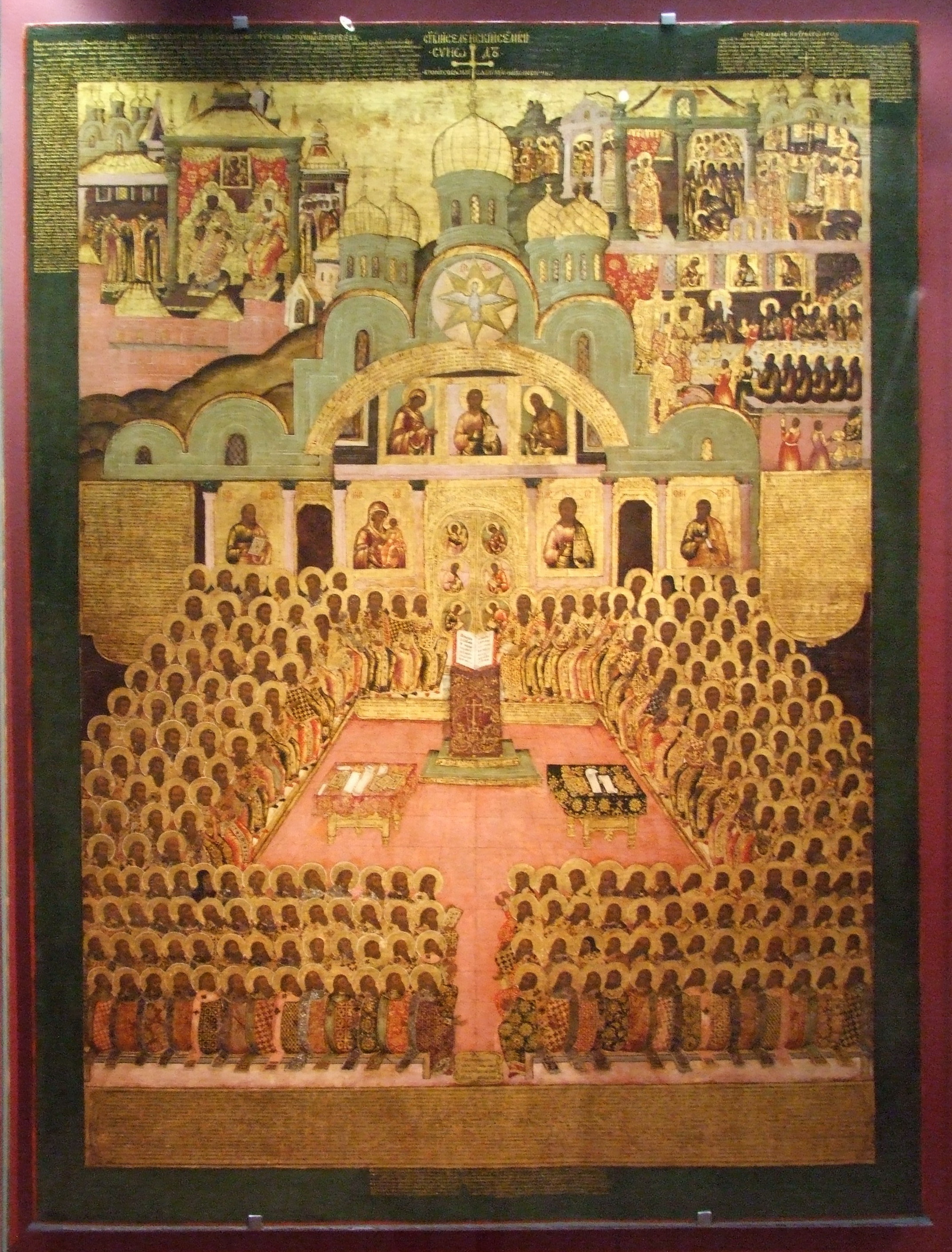 Seventh ecumenical council, Icon, 17th century, Novodevichy Convent, Moscow